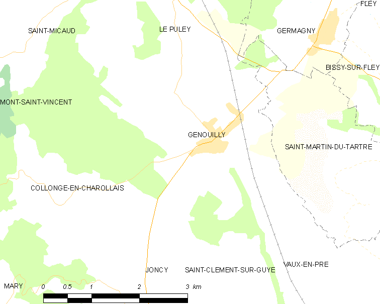 Map of French municipality